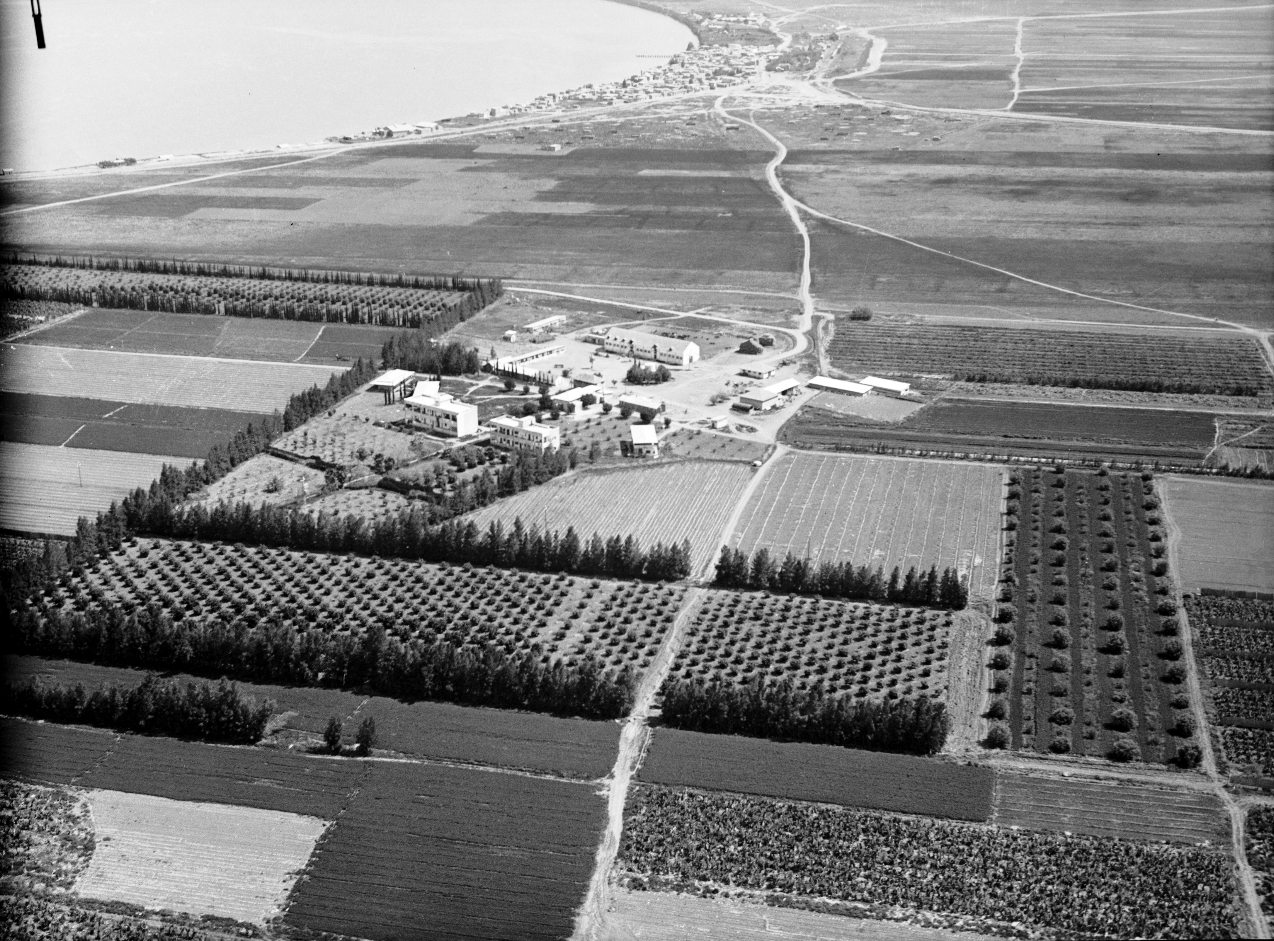 Air views of Palestine. Degania. Jewish agricultural colony. South end of Lake Galilee. Samakh, Palestinian town depopulated in 1948, in the background